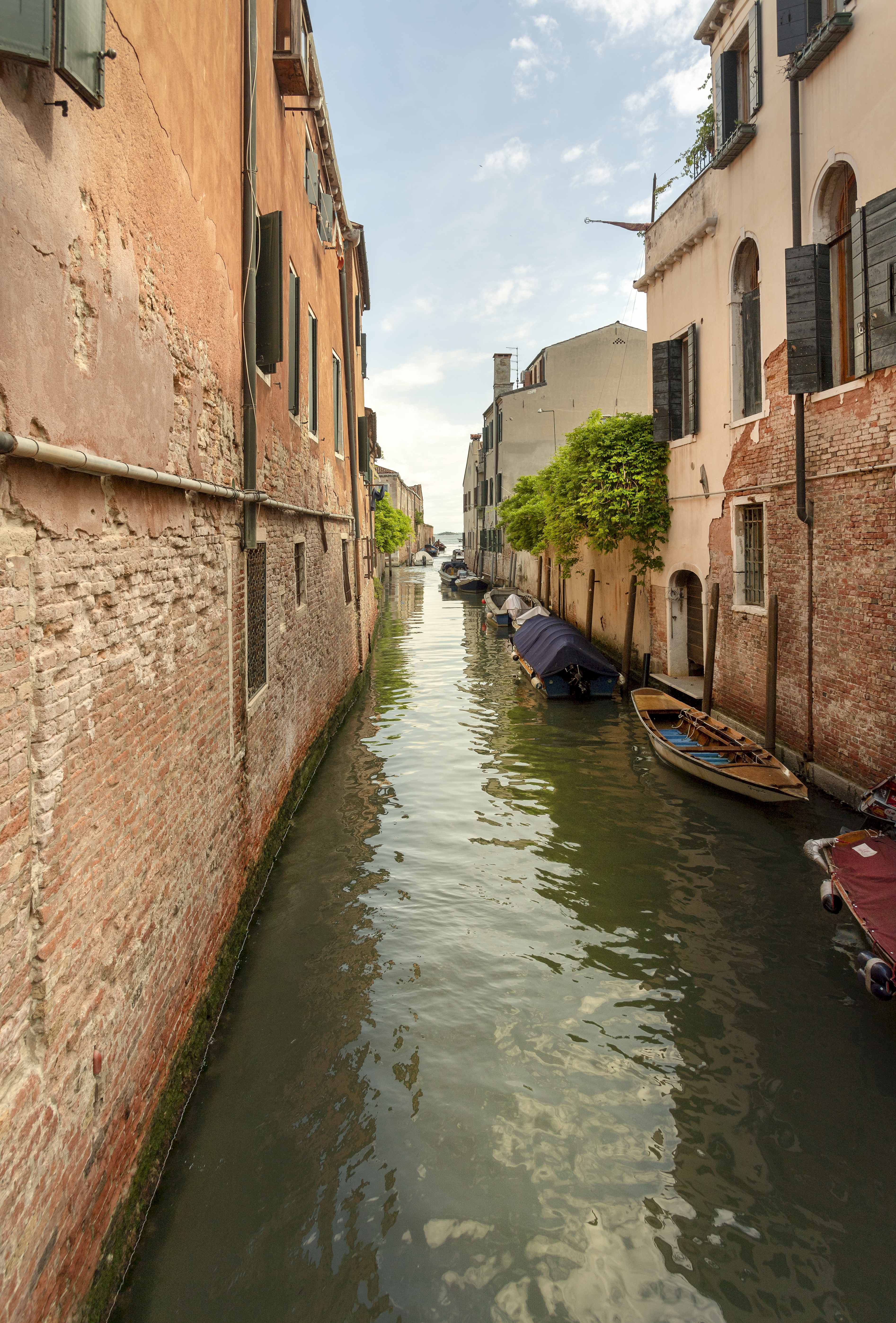 Rio dei Trasti to Venice, seen from the ponte dei Trasti